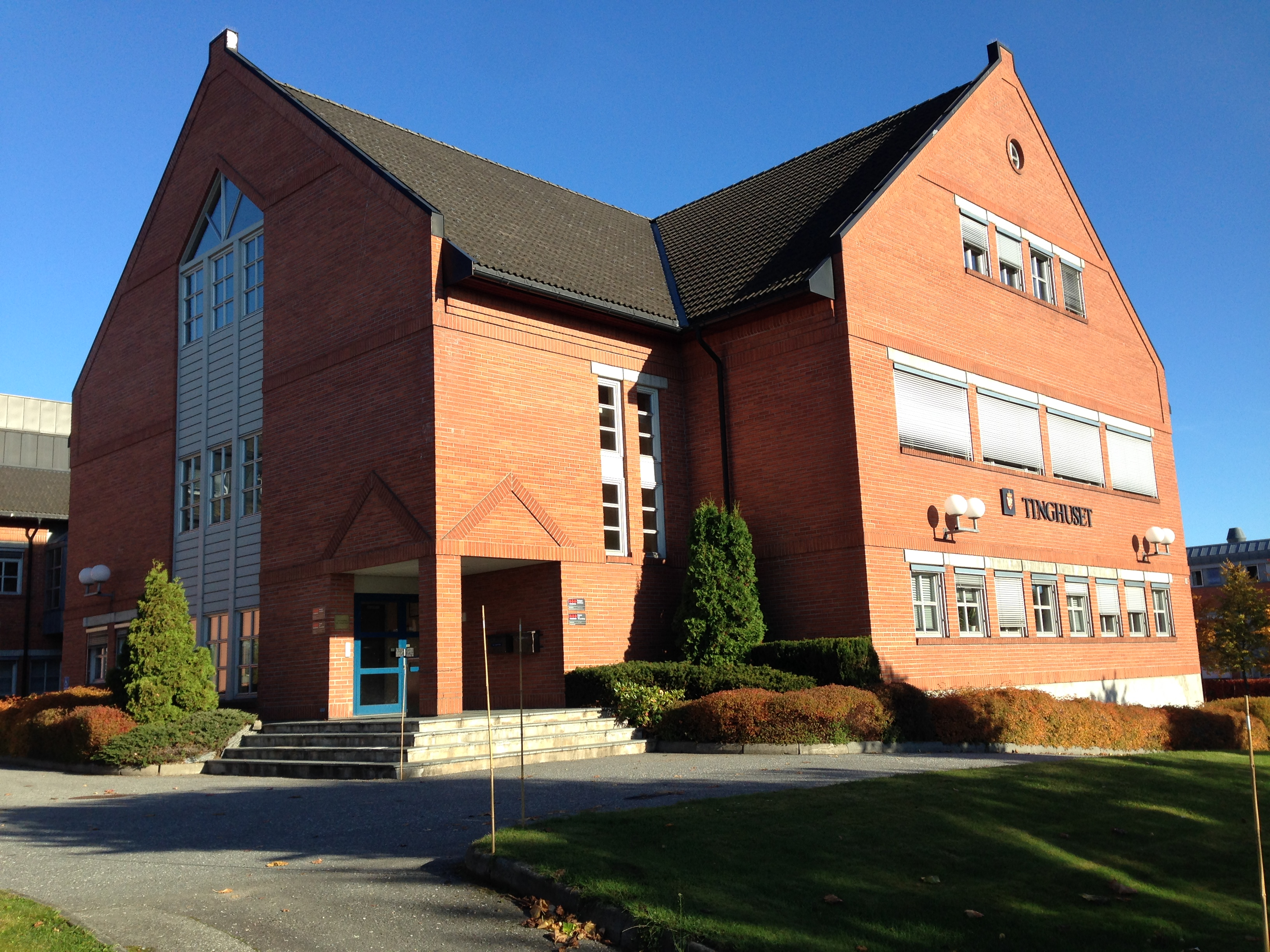 Court house in Skien